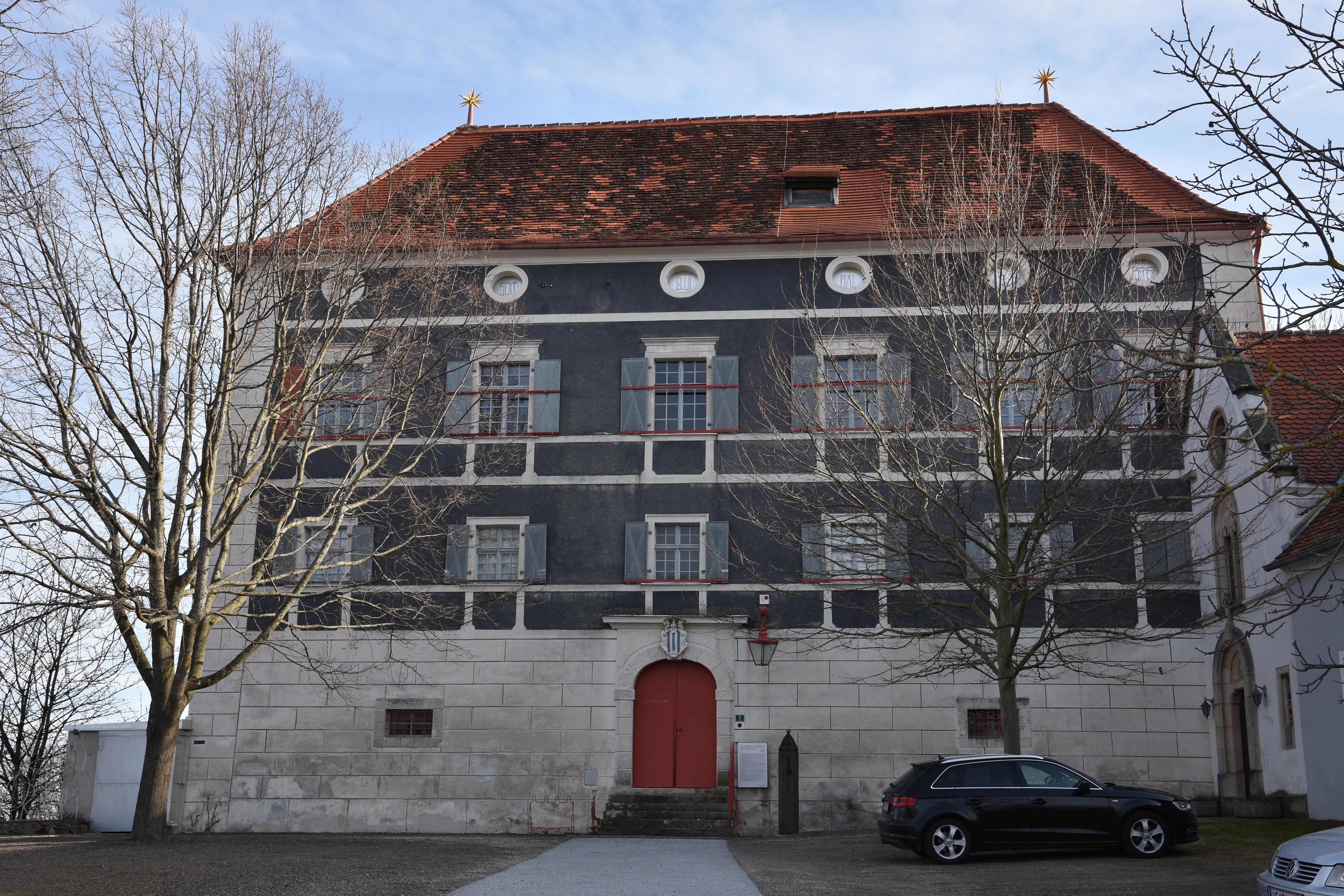 Castle Schloss Aichberg Styria